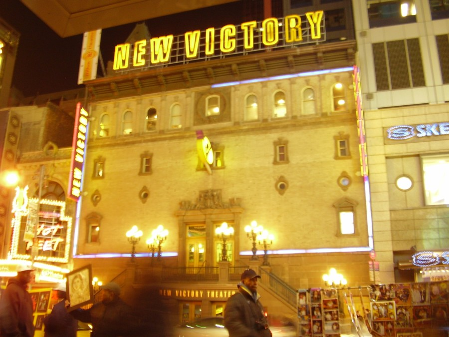 New Victory Theatre, NYC 2006. Photo by Mademoiselle Sabina